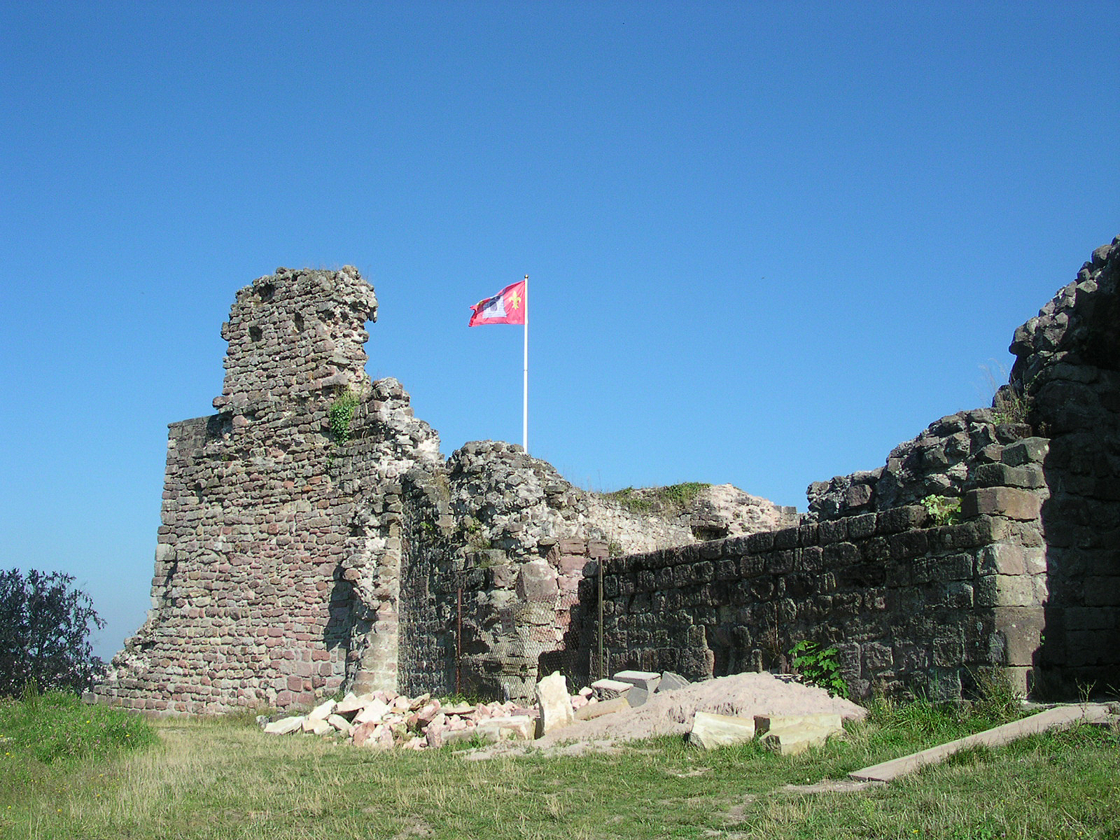 Castle of Epinal